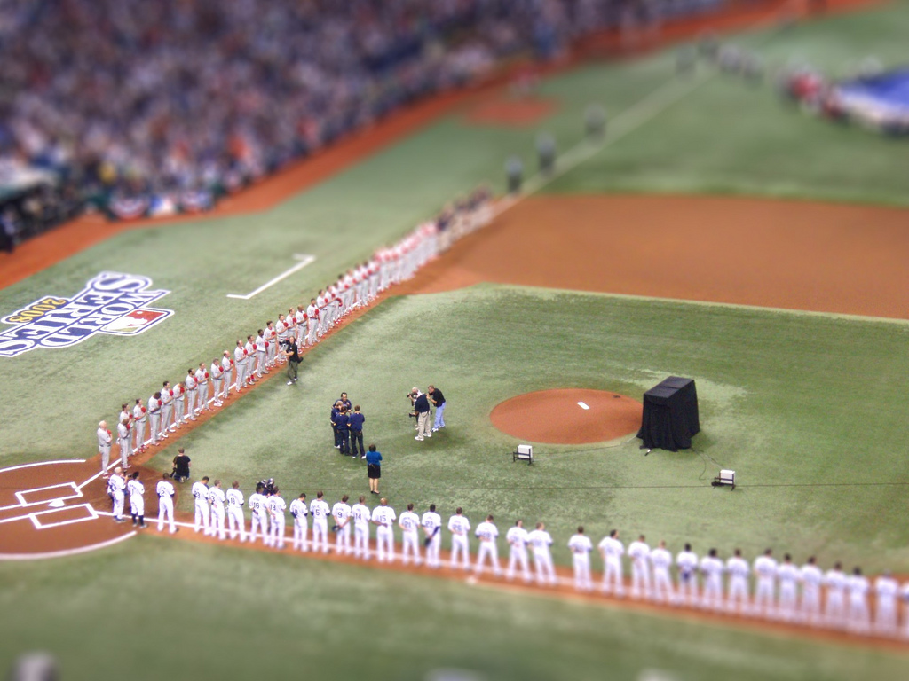 2008 World Series Game 1 Wednesday, October 22, 2008 at Tropicana Field in St. Petersburg, Florida